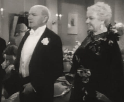 Joseph Cawthorn & Greta Meyer in Young and Beautiful - cropped screenshot